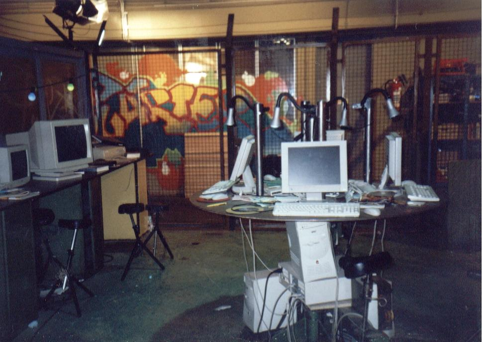 Computer corner in a youth centre on stage of Germen teen tv series "Fabrixx"